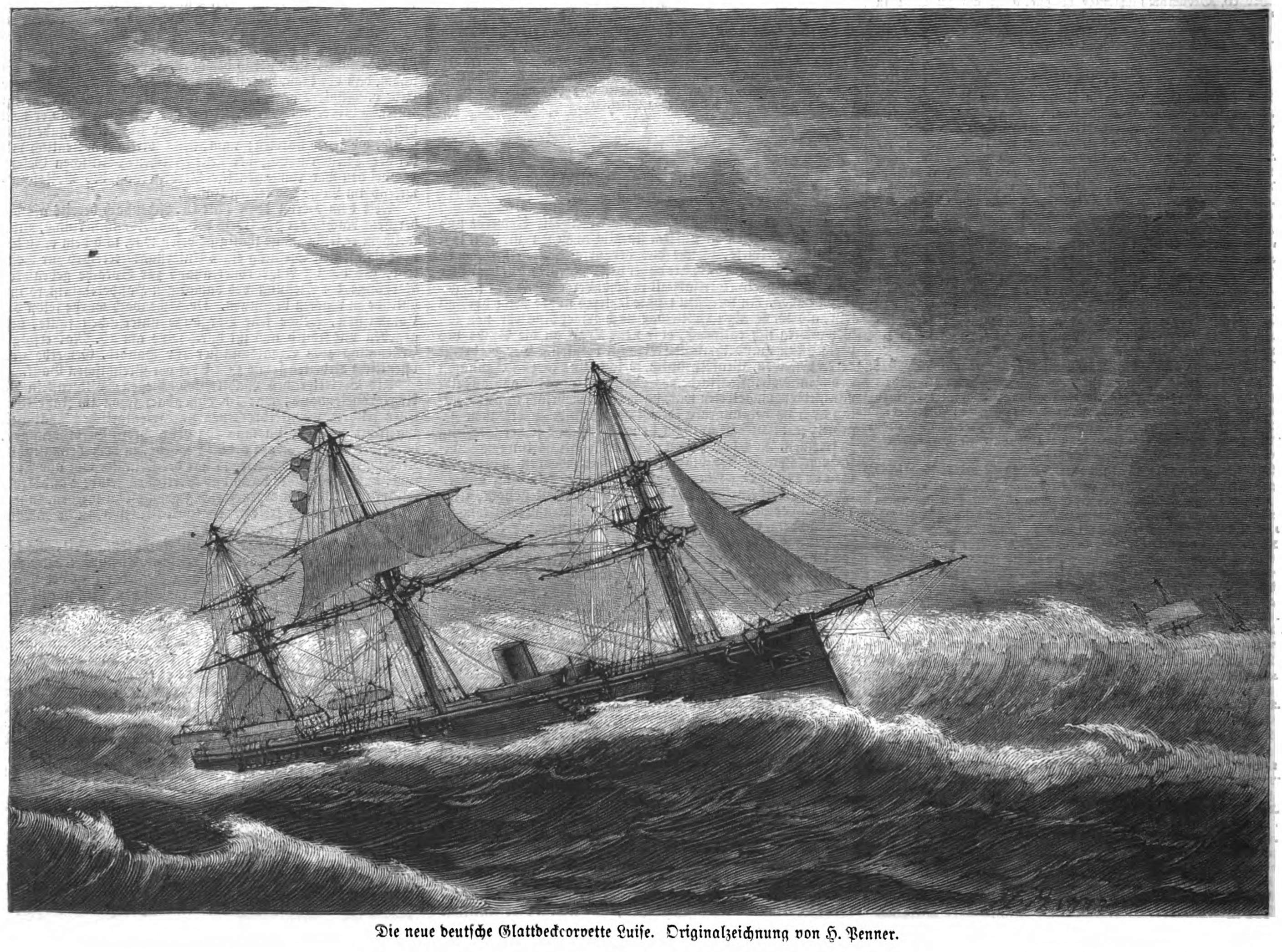 The German weekly magazine Illustrirte Zeitung had an article about the new German corvette Luise in its June 7, 1873 issue, page 430. It was accompanied by this drawing by H. Penner on page 428. The article lauded the Imperial shipyard at Danzig for its fast production time of one and a half year, but the Luise was in fact not ready in June 1873 and only joined the German Navy in June 1874, so the drawing of the vessel in storm must be based on the sister ship Ariadne.